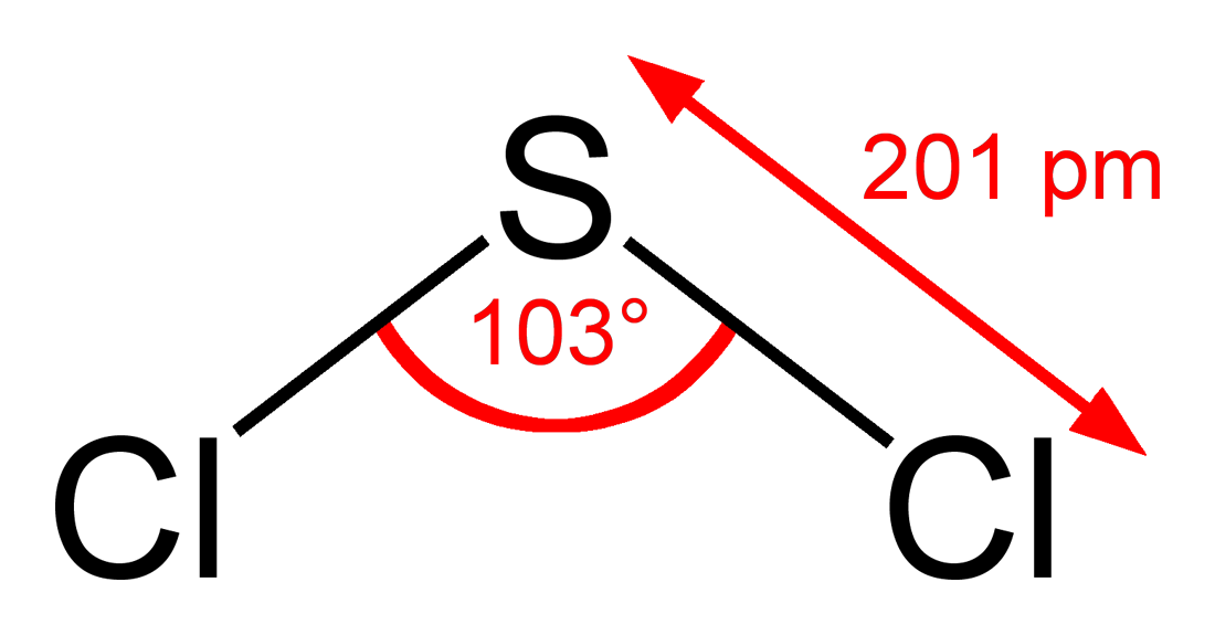 Structure, bonding and dimensions of the sulfur dichloride molecule, SCl2